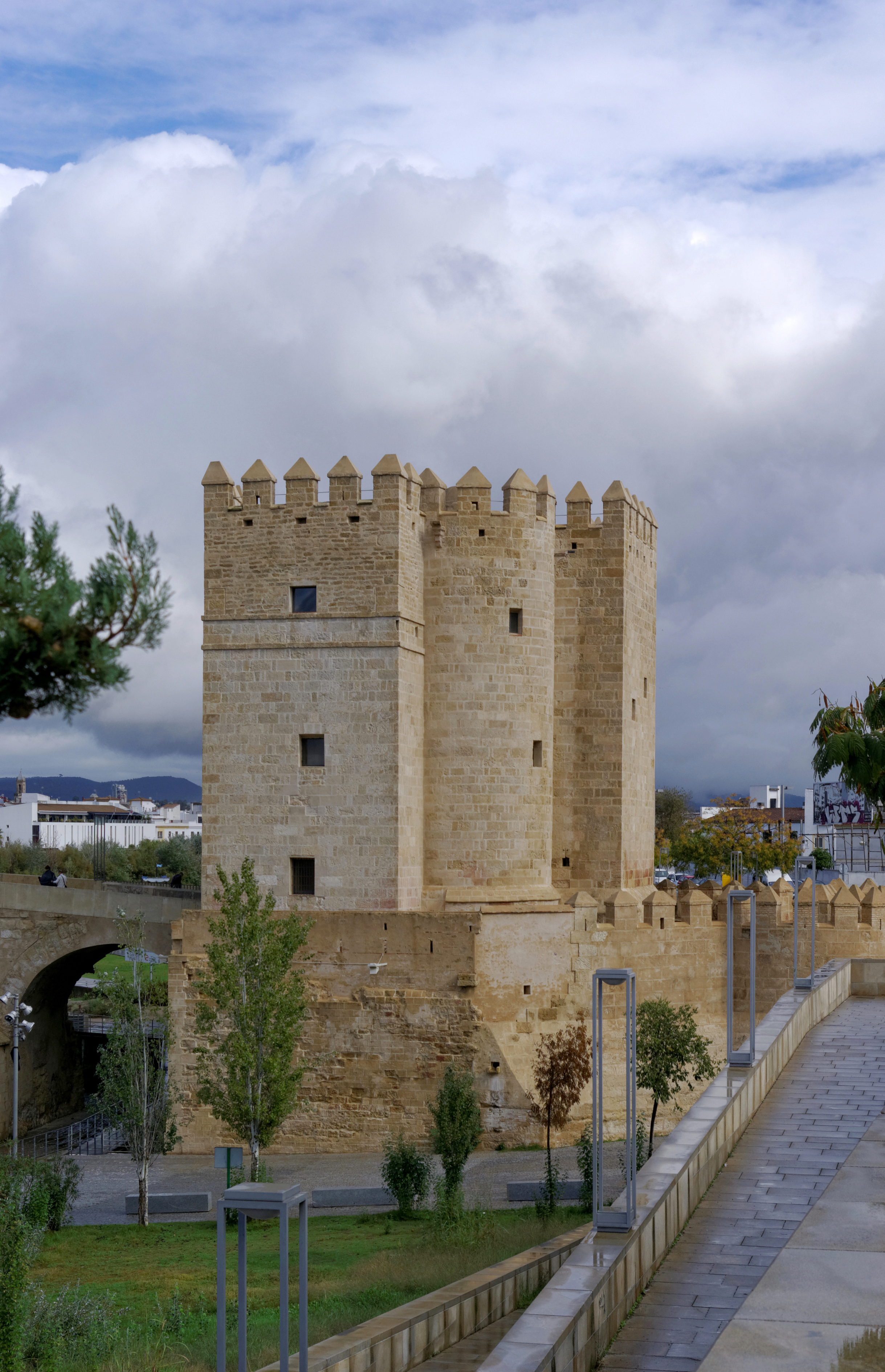 Spain, Cordoba, Calahorra Tower